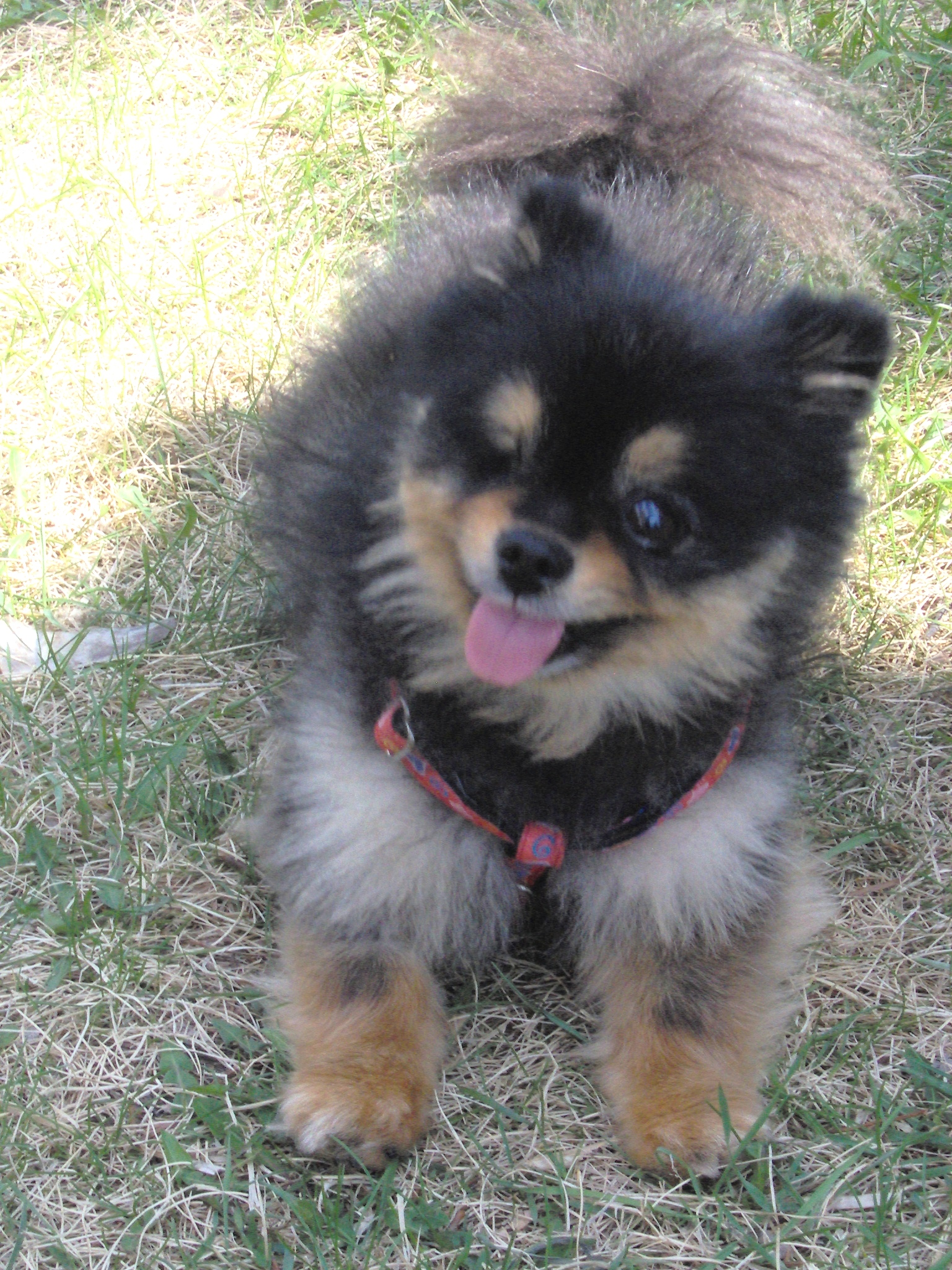 A black & tan Pomeranian that has lost an eye due to an infection